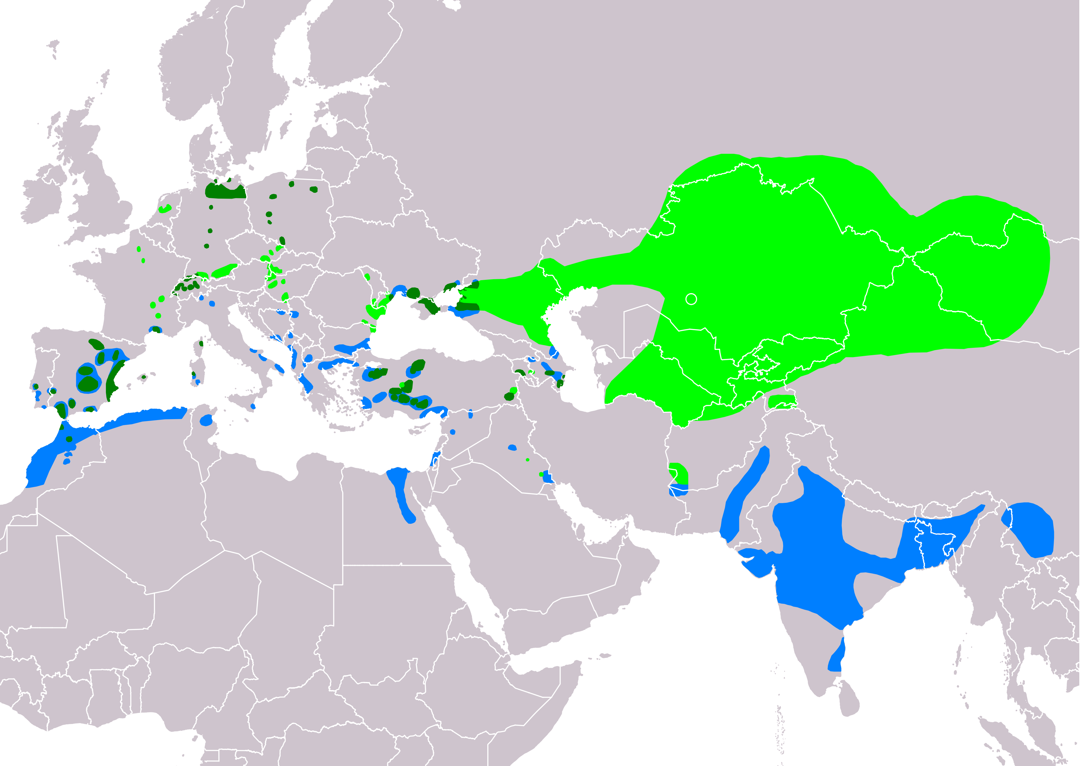 Distribution map of red-crested Pochard (Netta rufina) according to IUCN verzia 2018.2 , Legend: Extant, breeding (#00FF00), Extant, resident (#008000), Extant, non-breeding (#007FFF)